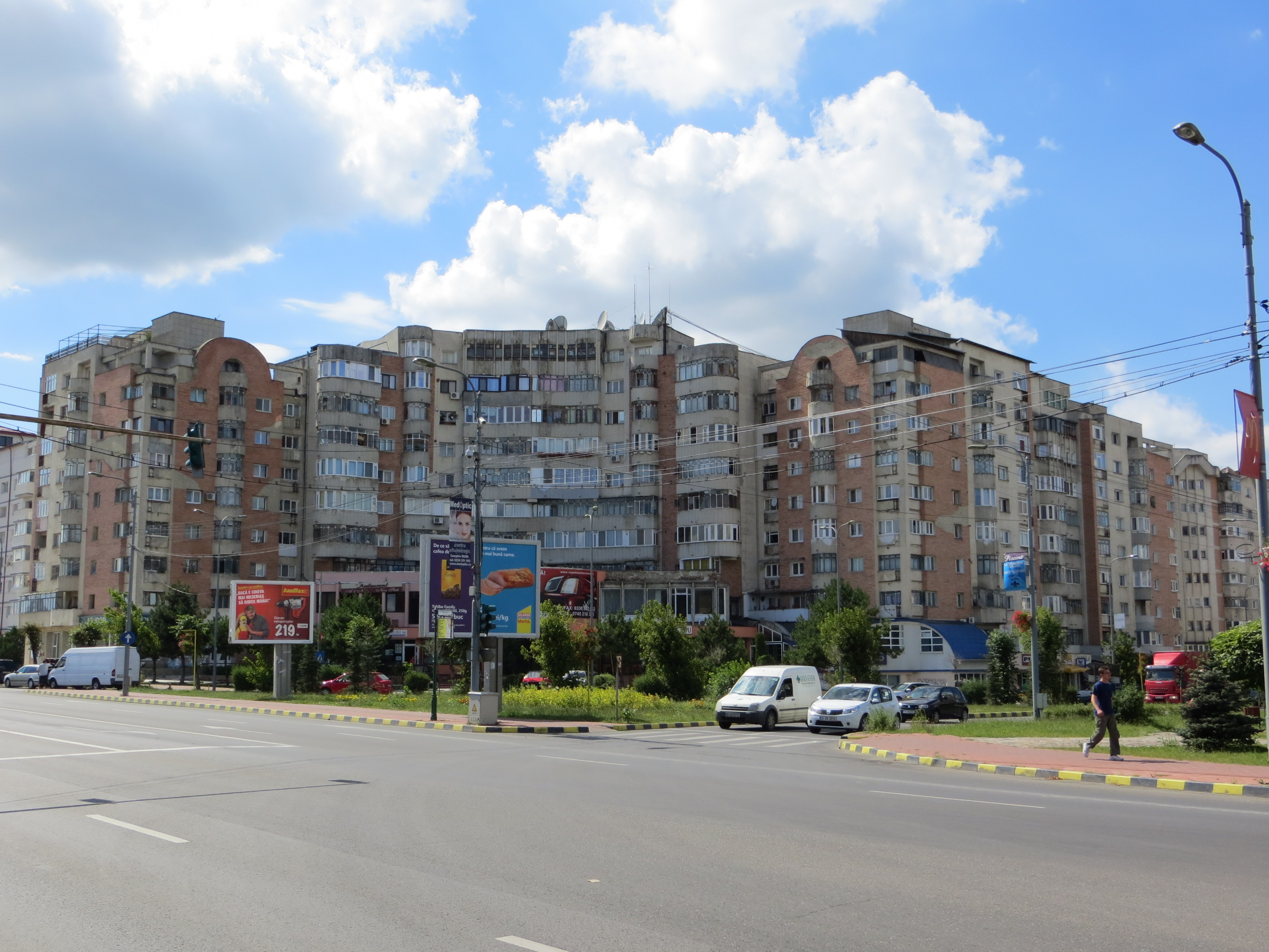 Apartment block in Suceava (Nistru block).